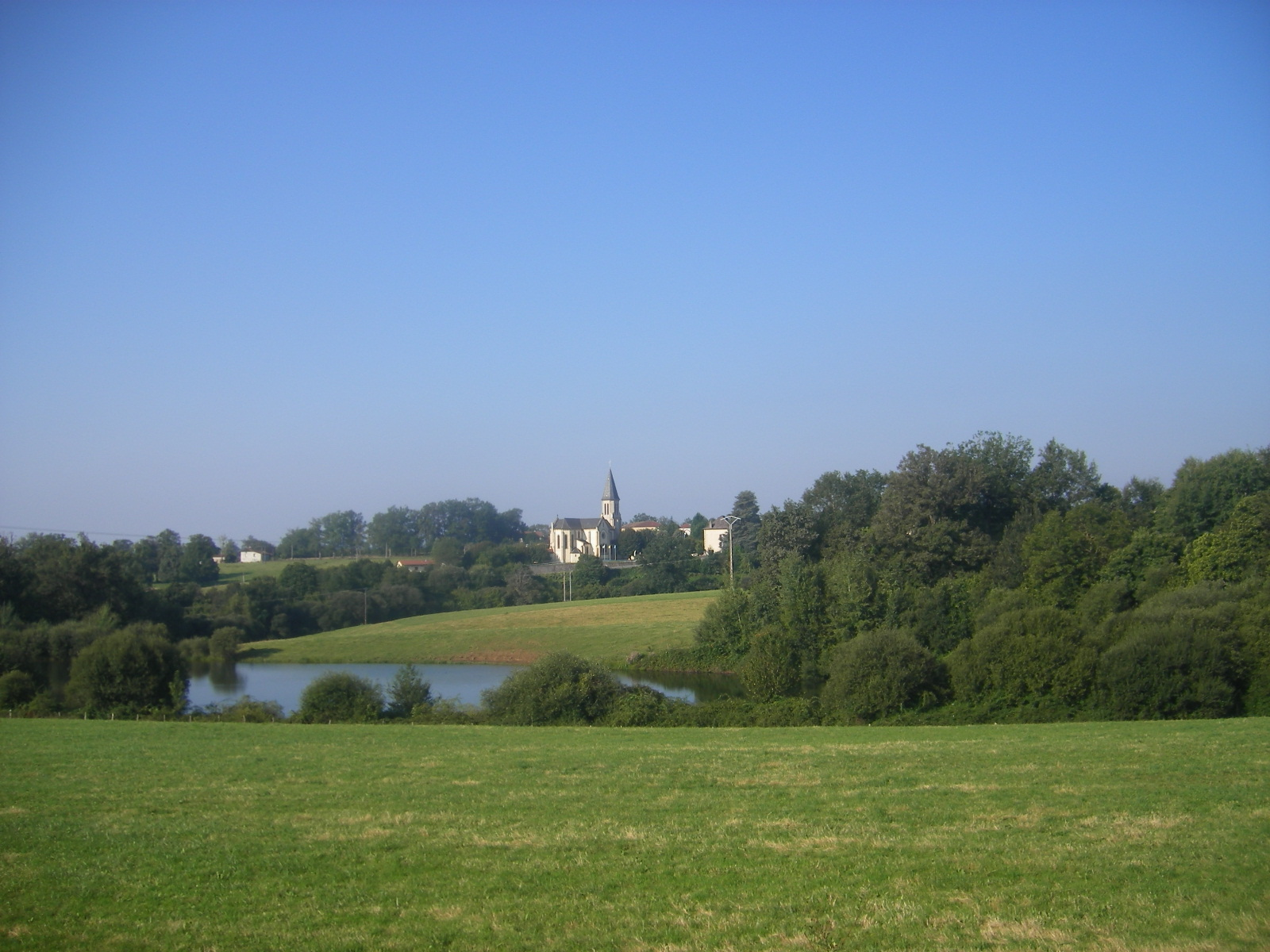 Quézac as seen from N122 route